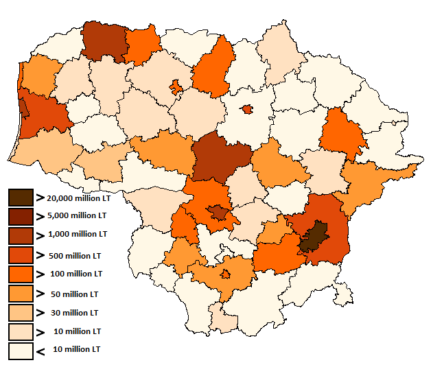 Foreign Direct Investment in Lithuania by District